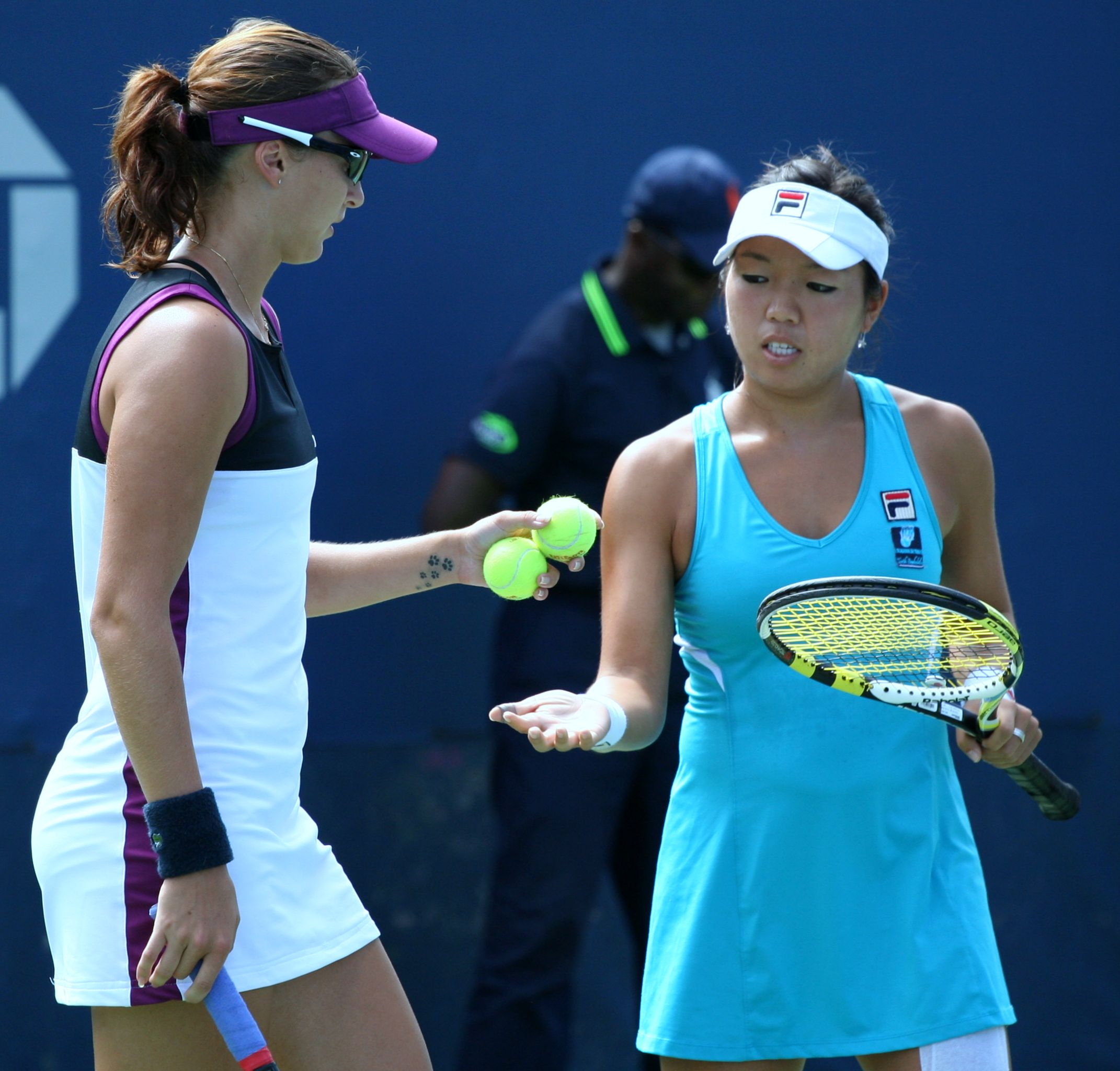 U.S. Open Thursday, Sept. 8, 2011